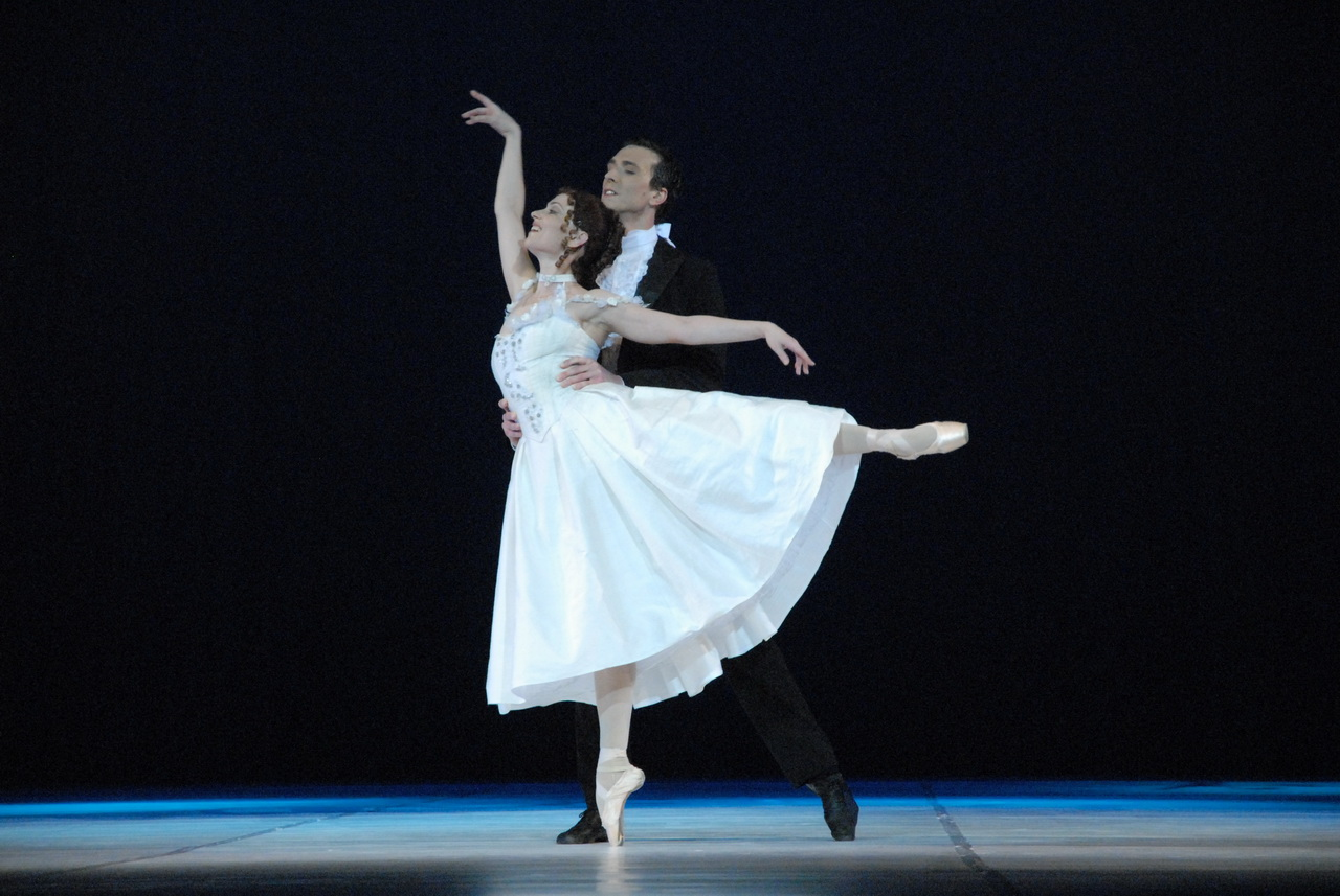 "The Lady with the Camellias" a novel by Alexandre Dumas fils, ballet composed by Giuseppe Verdi; libretto writter, director and author of choreography Krunislav Simić, Ballet of SNT, 2008-2009; Oksana Storožuk, Milan Rus Srpski (latinica): "Dama s kamelijama", novela Aleksandra Dime sina, balet komponovao Đuzepe Verdi; pisac libreta, reditelj i koreograf: Krunislav Simić, Balet SNP,2008-2009; Oksana Storožuk, Milan Rus Српски (ћирилица): "Дама с камелијама", новела Александра Диме сина, балет компоновао Ђузепе Верди; писац либрета, редитељ и кореограф: Крунислав Симић, Балет СНП, 2008-2009; Оксана Сторожук, Милан Рус